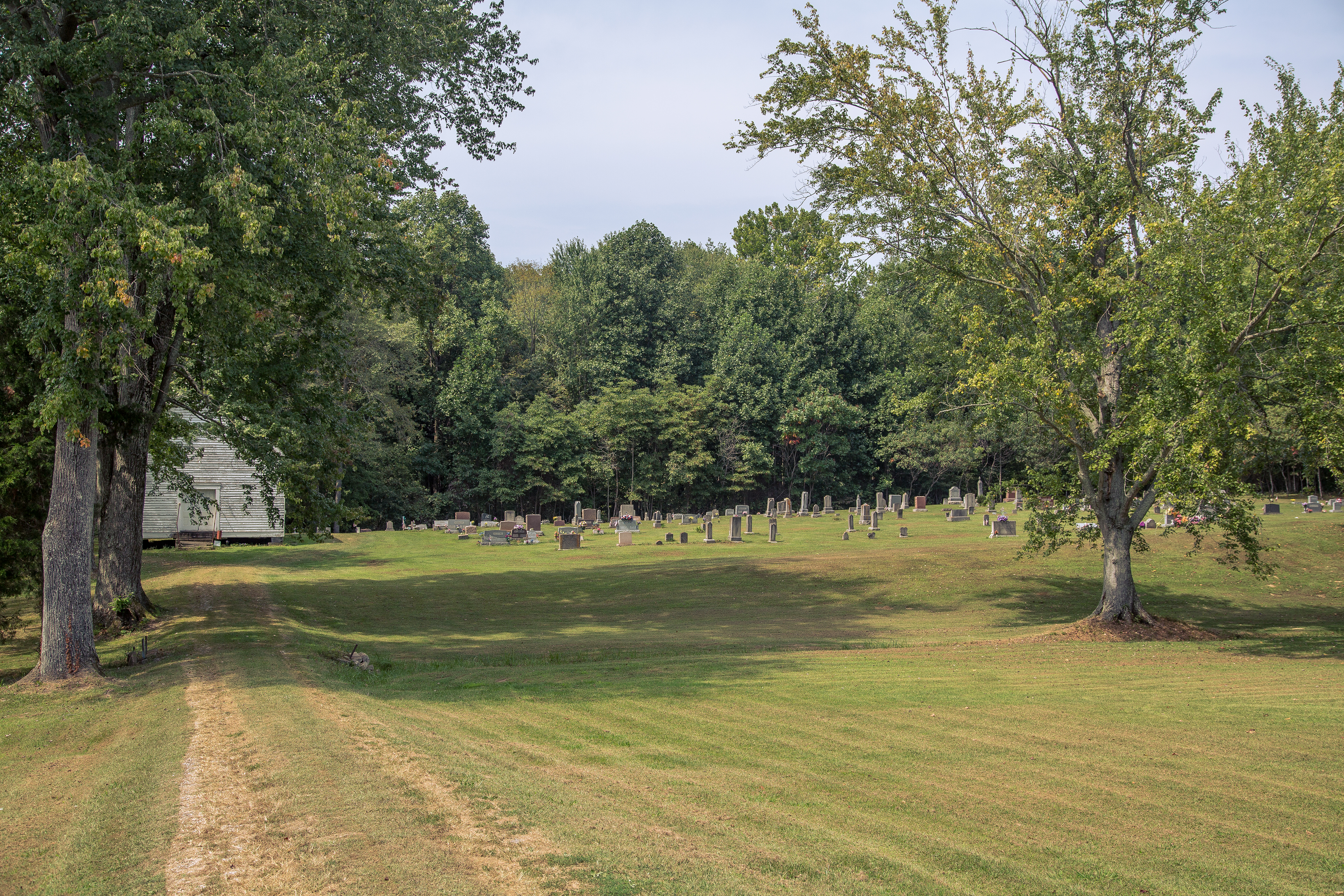 Photo from Small Town Indiana photo survey.